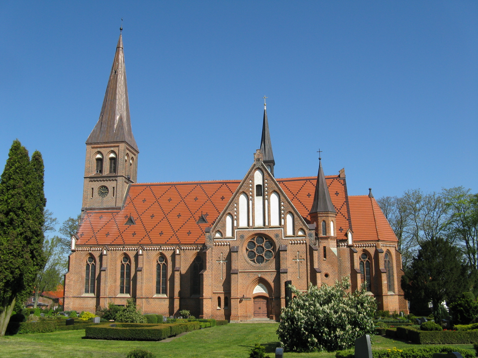 Church in Picher, Mecklenburg-Vorpommern, Germany